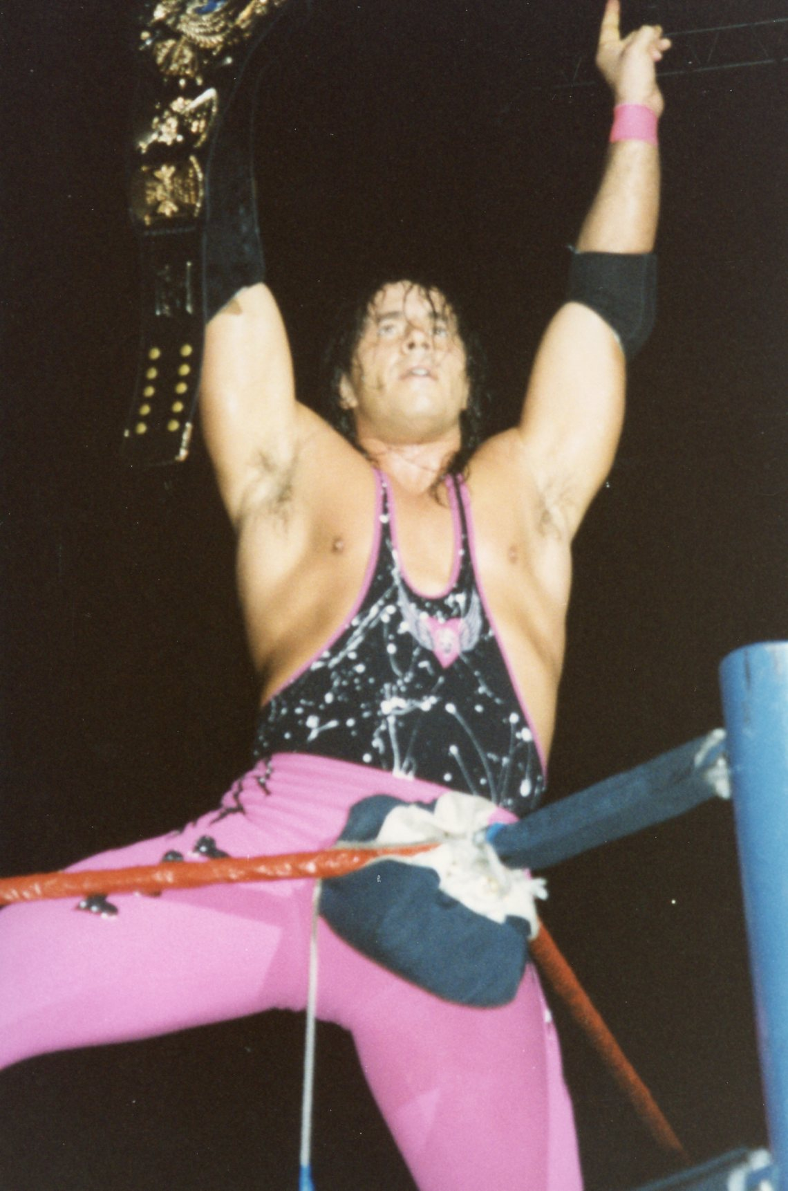 Bret Hart poses before defending his WWF Championship against Owen Hart at the Wembley Arena in London.. Taken 9/14/1994